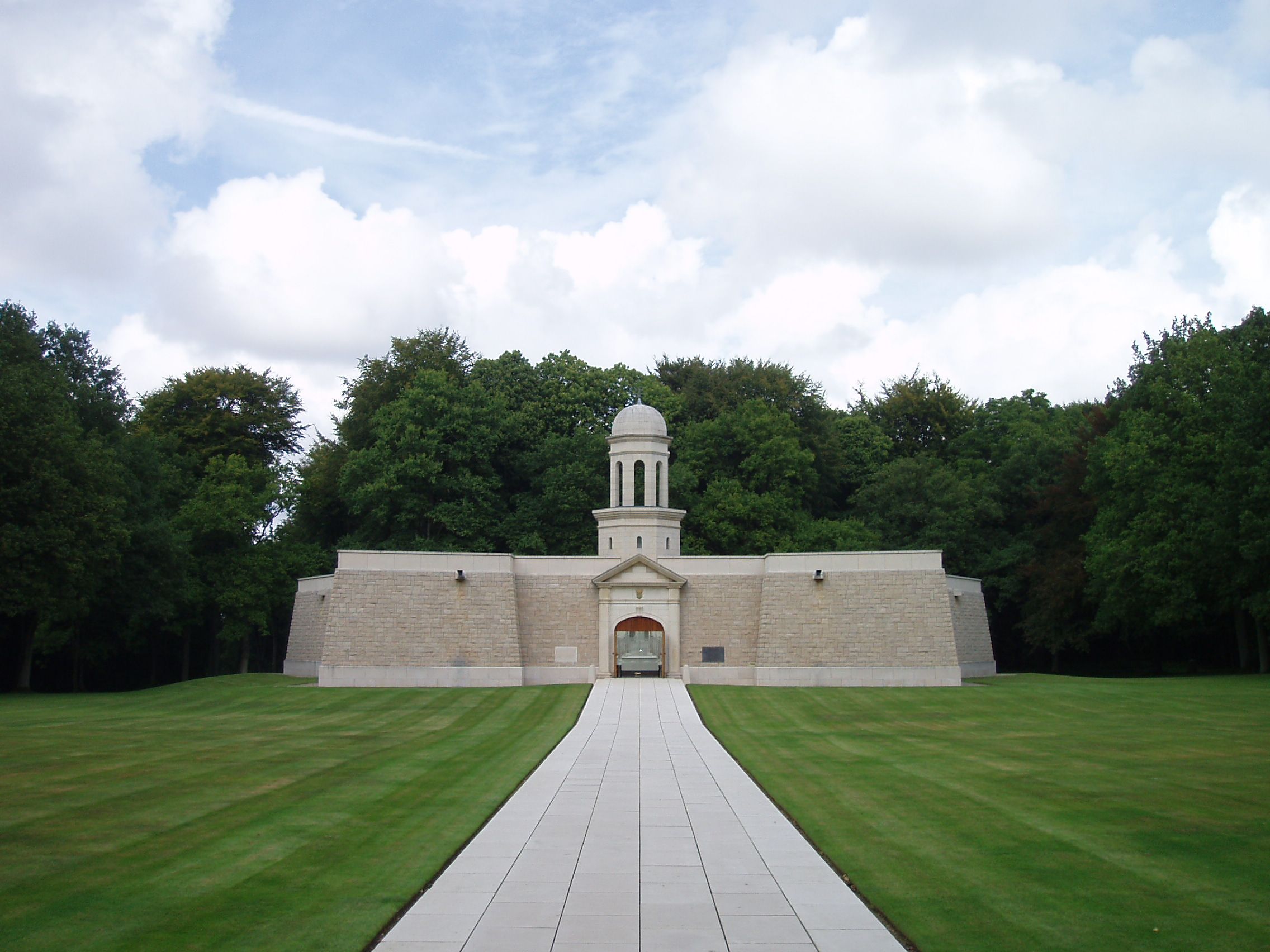 Part of a set of photographs of the South African Commemorative Museum, located in Delville Wood, near Longueval, France. This is an external view of the museum, which is in the shape of a five-pointed star. It commemorates South African forces that fought in both World Wars.